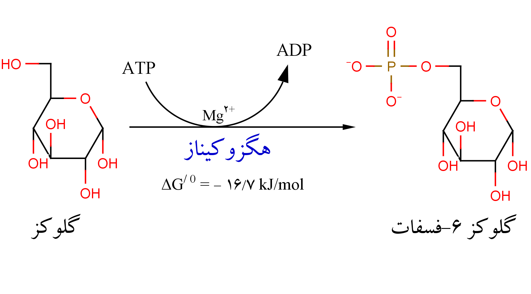 Hexokinase reaction